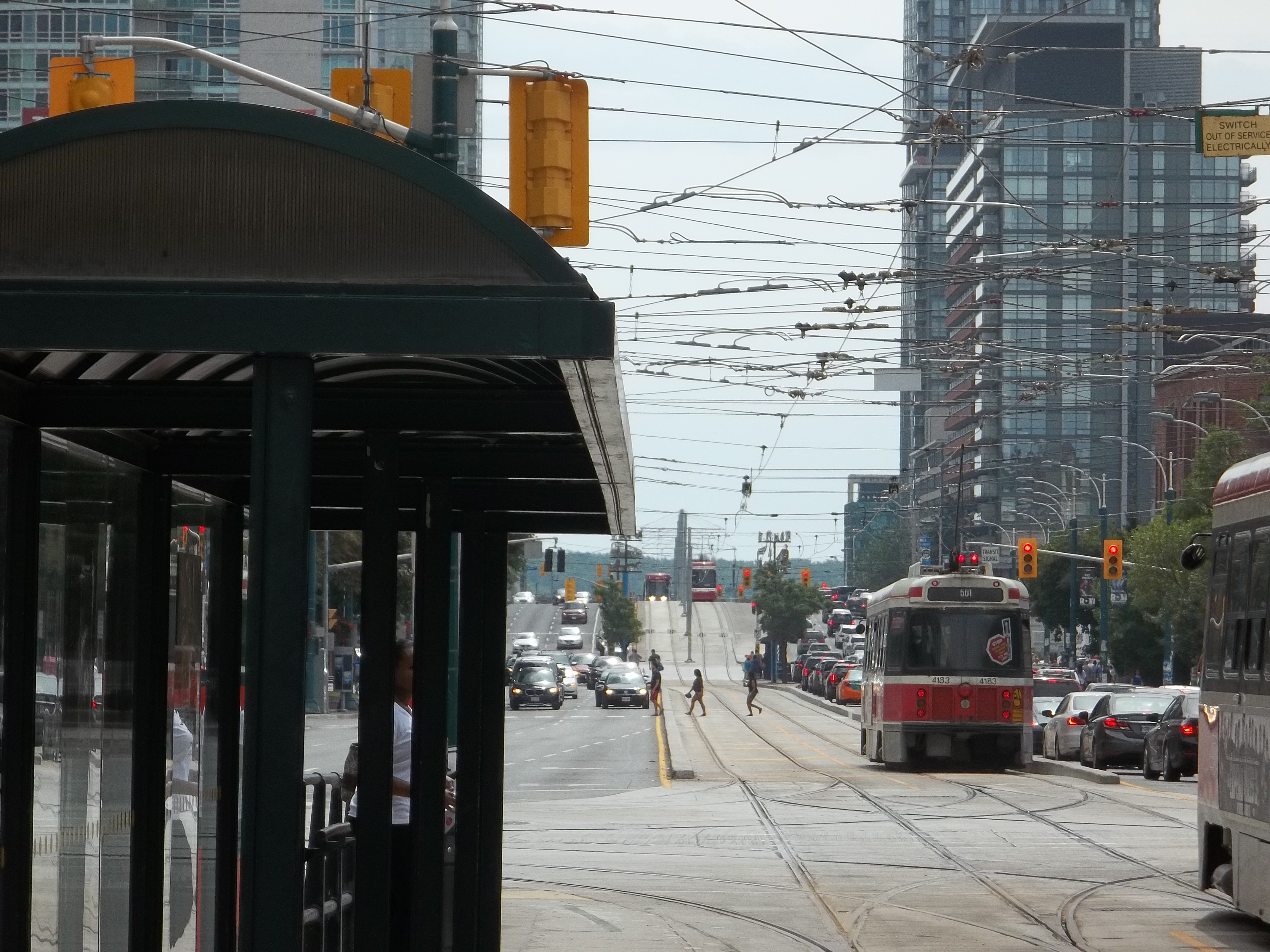 The two Flexity Outlooks in service on 2014 08 31 pass on the railway bridge south of Front. (2)